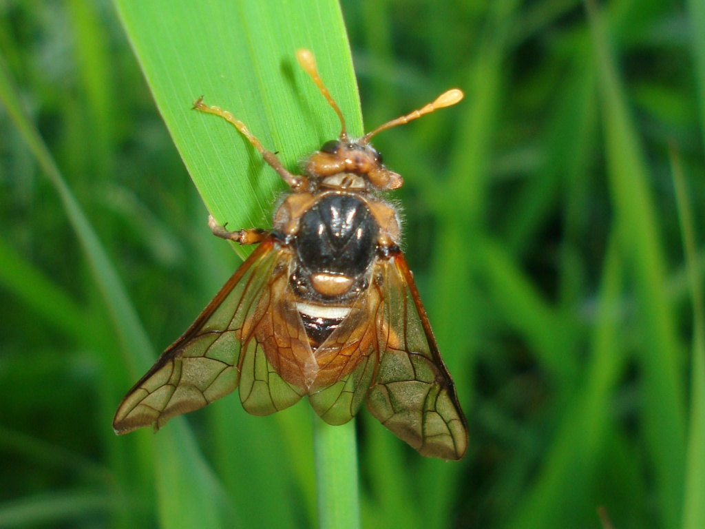 Cimbex